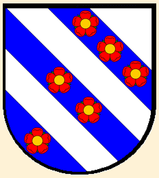 coat of Arms Grafen von Hohenau